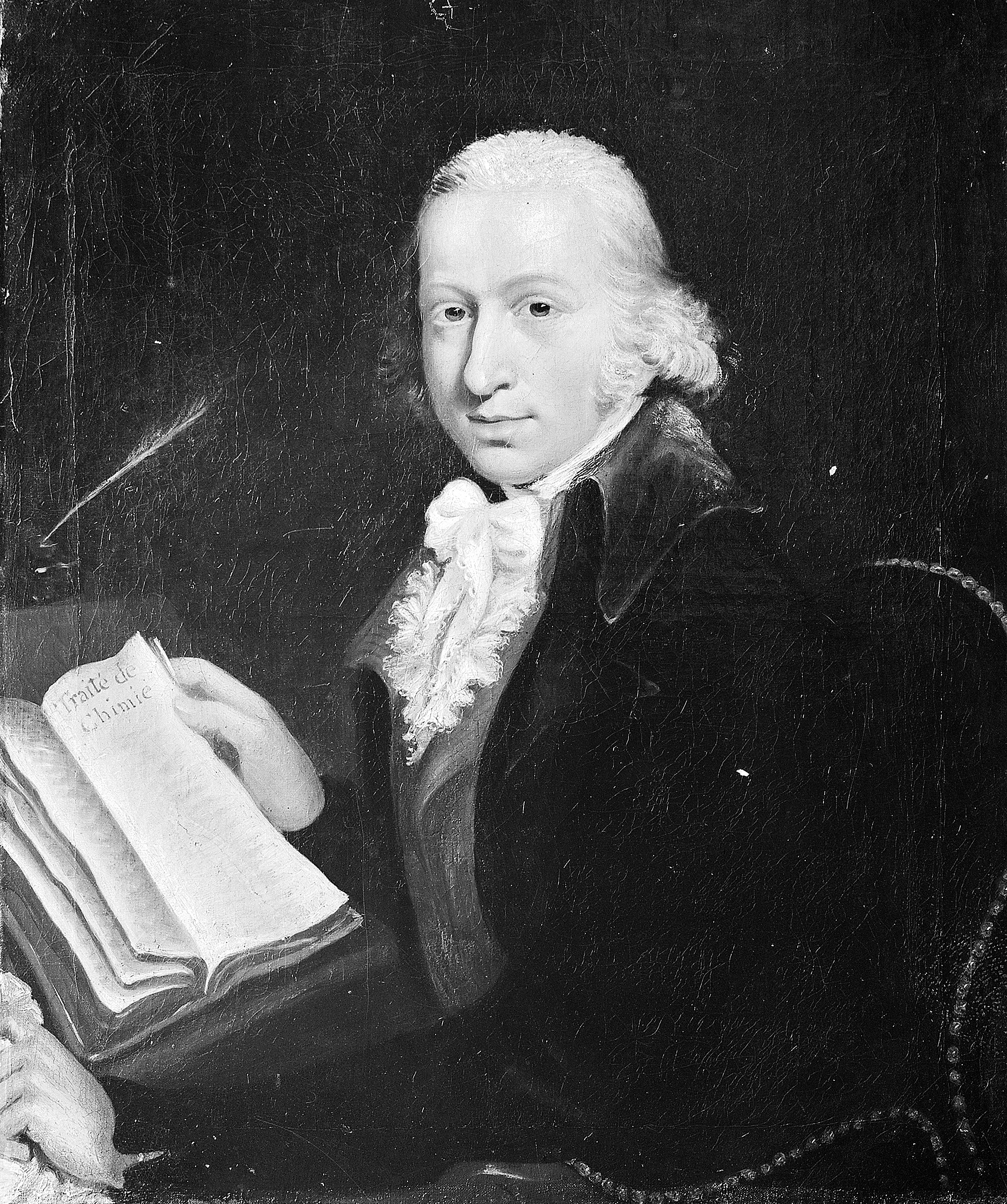 Portrait of A.L. Lavoisier. Offered to the Trust by W. Baber. Not purchased. Wellcome Images Keywords: Antoine Laurent Lavoisier